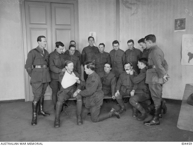 This image (taken on 14 March 1919 at Châtelet, Belgium) shows a group of soldiers receiving valuable training in bandaging, as part of their training in first-aid from instructors at the First Australian Field Ambulance, prior to their postwar return to Australia, as part of the academic, practical, and vocational training offered within the formal A.I.F Education scheme, that had been instituted by Rt. Rev. George Merrick Long, Anglican Bishop of Bathurst (former headmaster of Trinity Grammar, Melbourne) in May 1918. The scheme, was designed to equip all members of the A.I.F. with the remedial training, experience, skills, abilities, and/or qualifications that would significantly increase their capacity to re-enter the civilian workforce (often in entirely different professions from those in which they were engaged on enlistment). Second from the right, is one of the instructors: Corporal Hugh Gemmell Lamb-Smith (279).